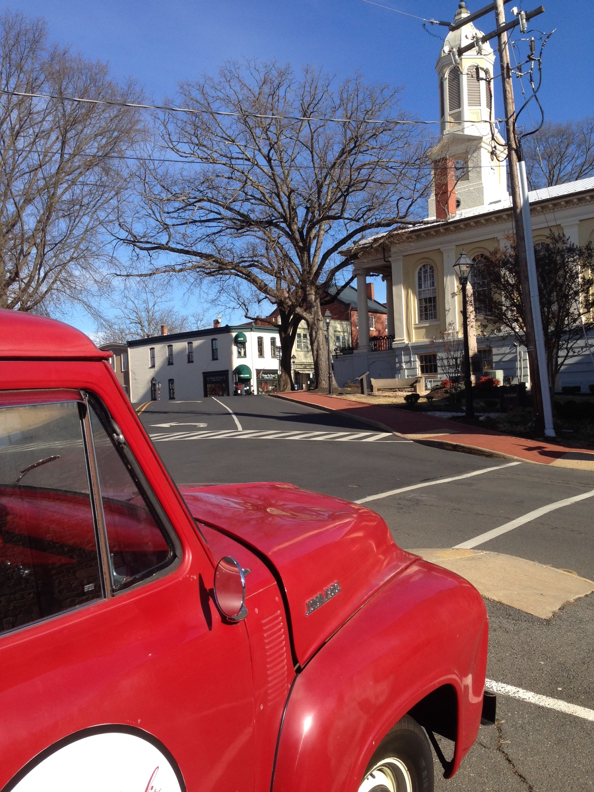 View towards Old Courthouse and Courthouse Square from the site of a former Esso filling station (now home to Red Truck Bakery).